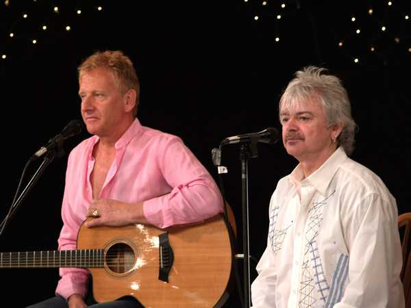 Photo taken and submitted by Phil Konstantin. I give my permission for anyone to use this photo.